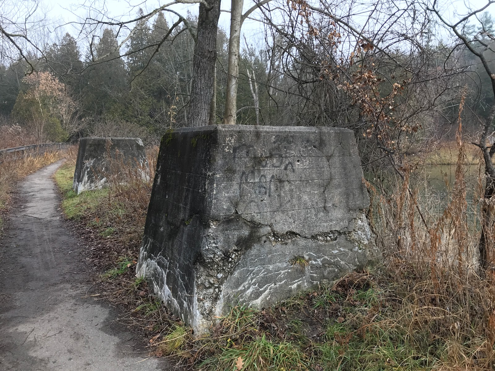 Abutments and piers of the old railway bridge along Devil's Den Trail at Heber Down Conservation Area